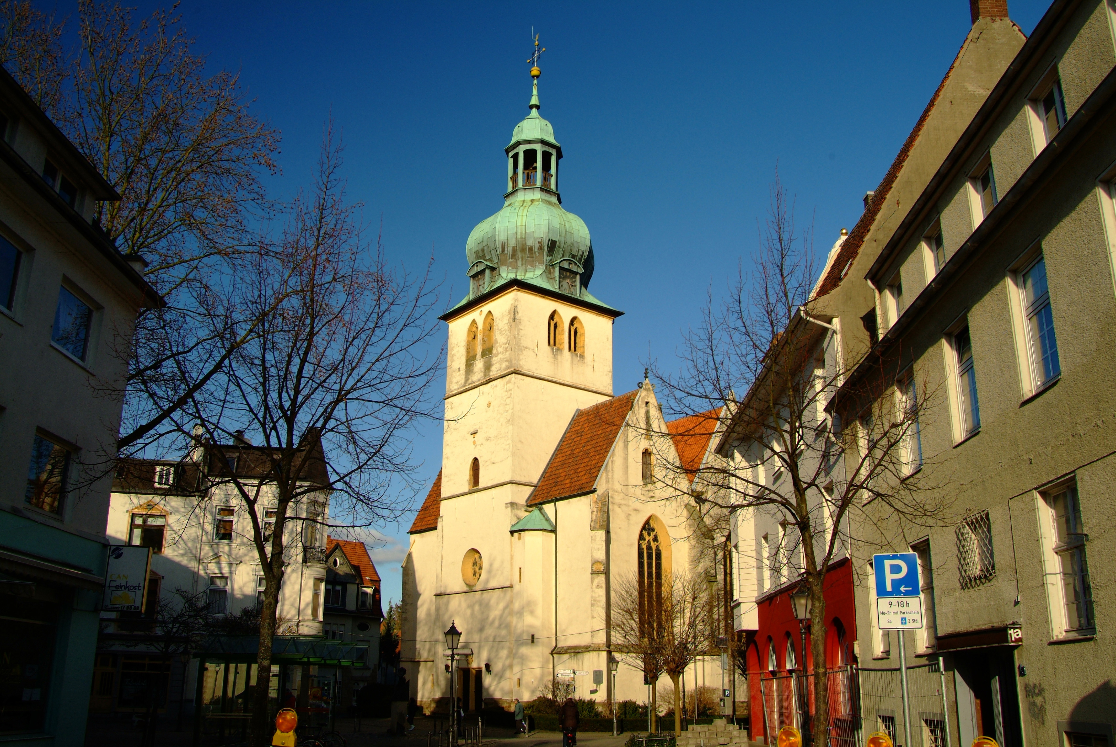 The Church of St. Jacobi in Herford, North Rhine-Westphalia, Germany. In the middleages the church was the meetingpoint for pilgrims on their way to Santiago de Compostela in Spain.